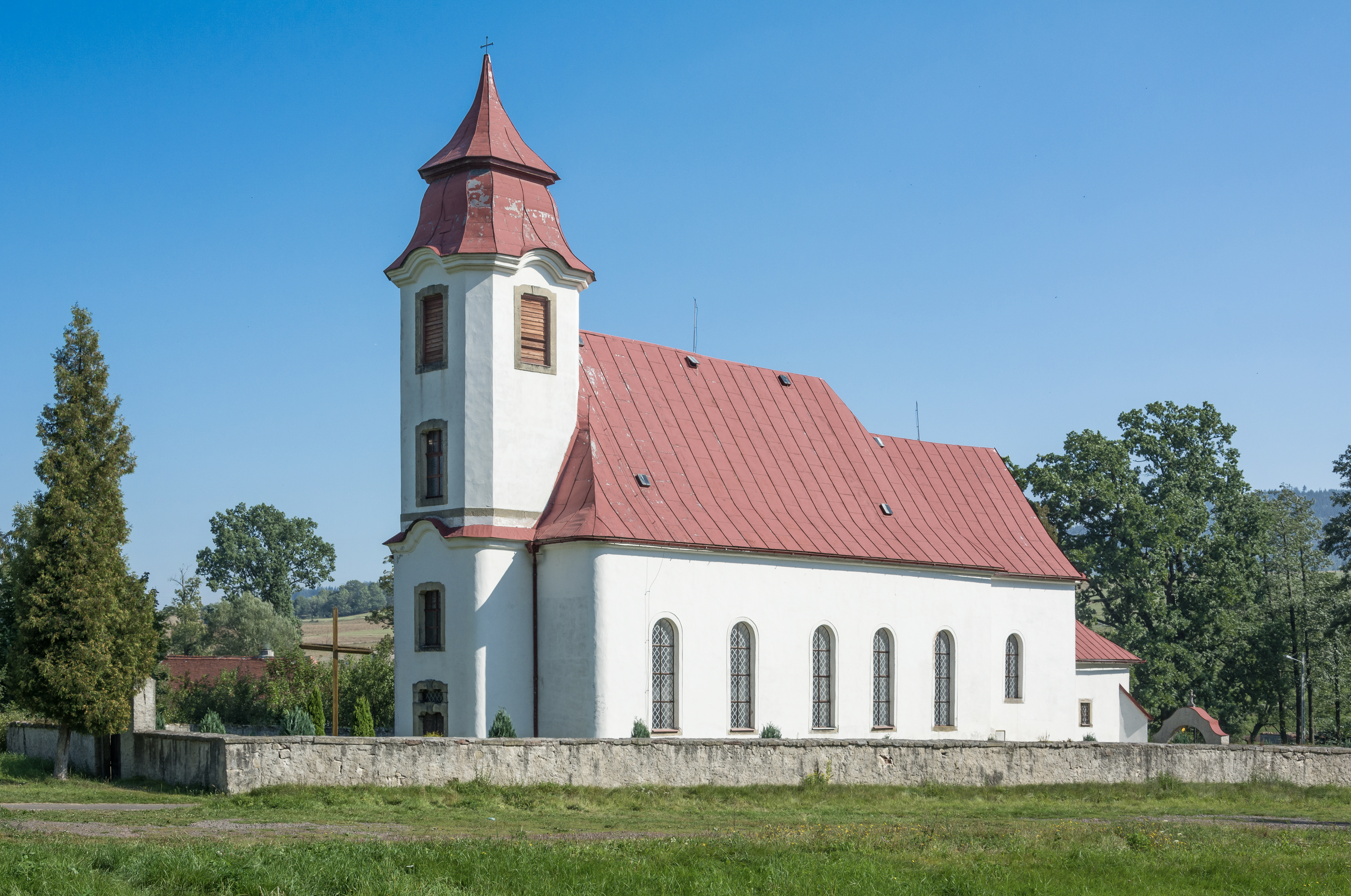 Saint Matthew church in Kochanów